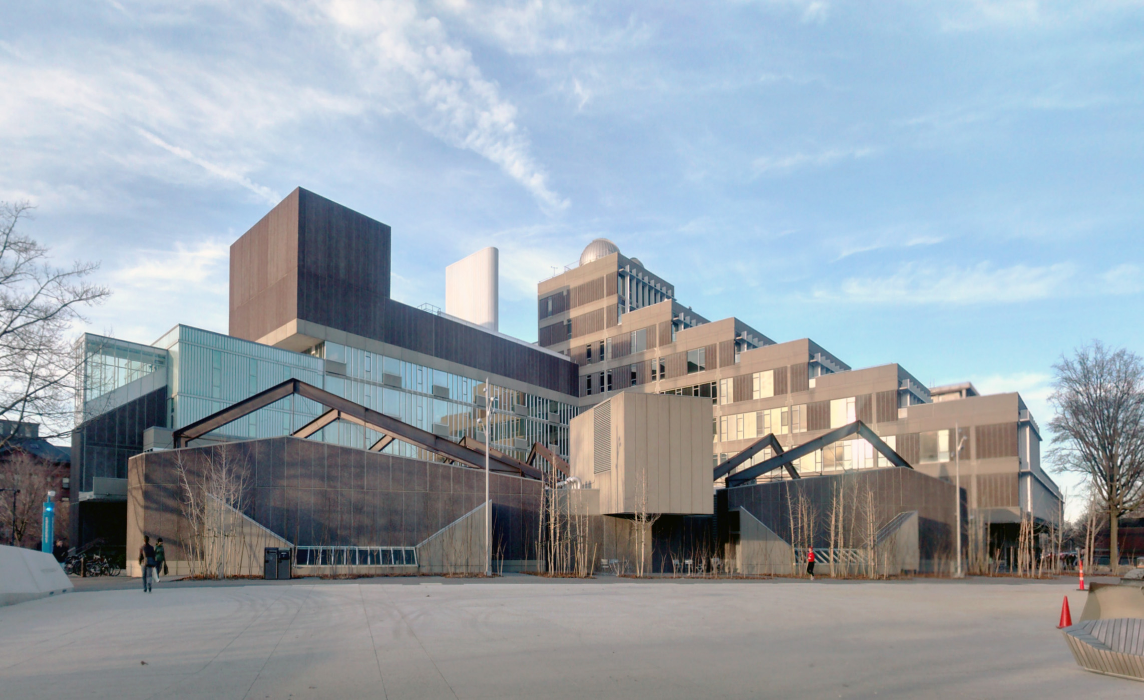 Harvard University Science Center, Cambridge, Massachusetts, Josep Lluís Sert, Apr. 2014